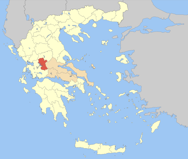 Locator map of Evrytania prefecture (Νομός Ευρυτανίας) in Greece